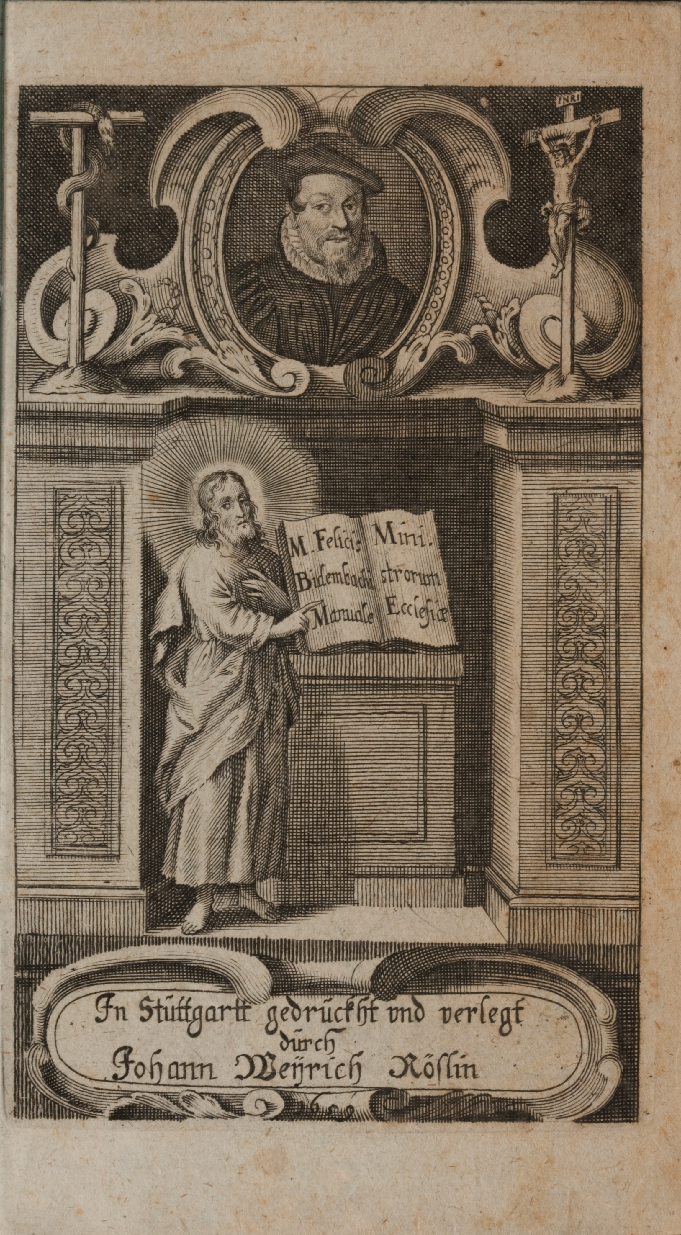 Book frontispiece of "Manuale ministrorum ecclesiae". Shows potrait of Felix Bidembach, german theologian.